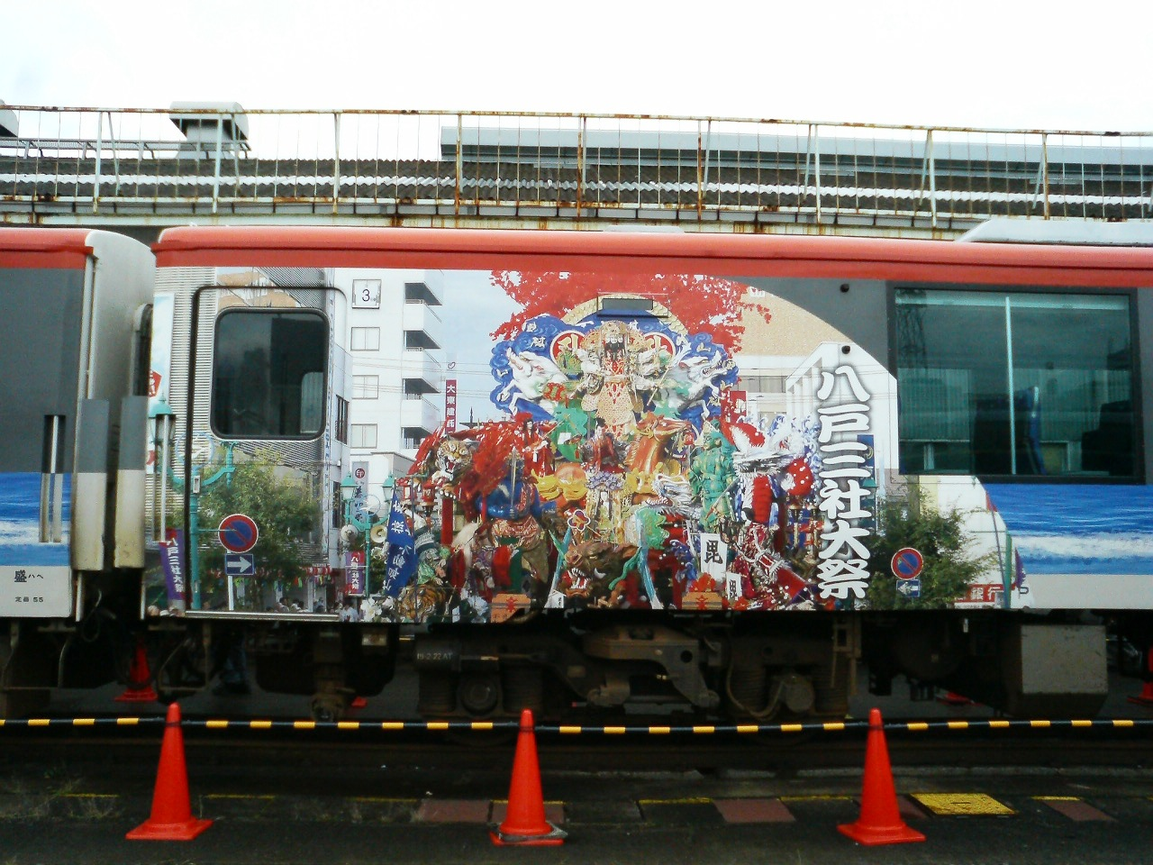 East Japan Railway Type kiha48 Diesel railcar (Japan).